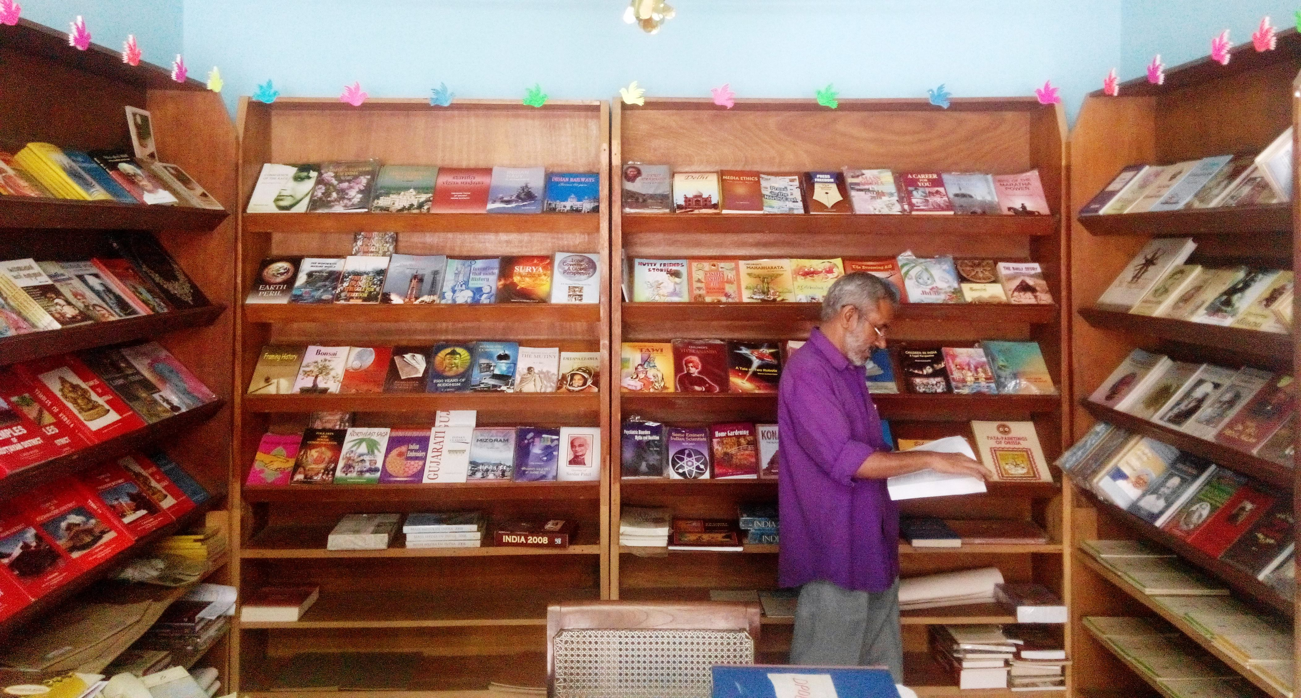 SE,Publications Division,Trivandrum